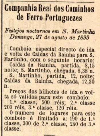 Public warning of Companhia Real dos Caminhos de Ferro Portugueses (Royal Company of Portuguese Railways), about a special train from Caldas da Rainha to São Martinho do Porto, due to night festivities in that town. This image was published on the Diario Illustrado newspaper No. 9503, of 26th August 1899, and scanned by the Biblioteca Nacional de Portugal.